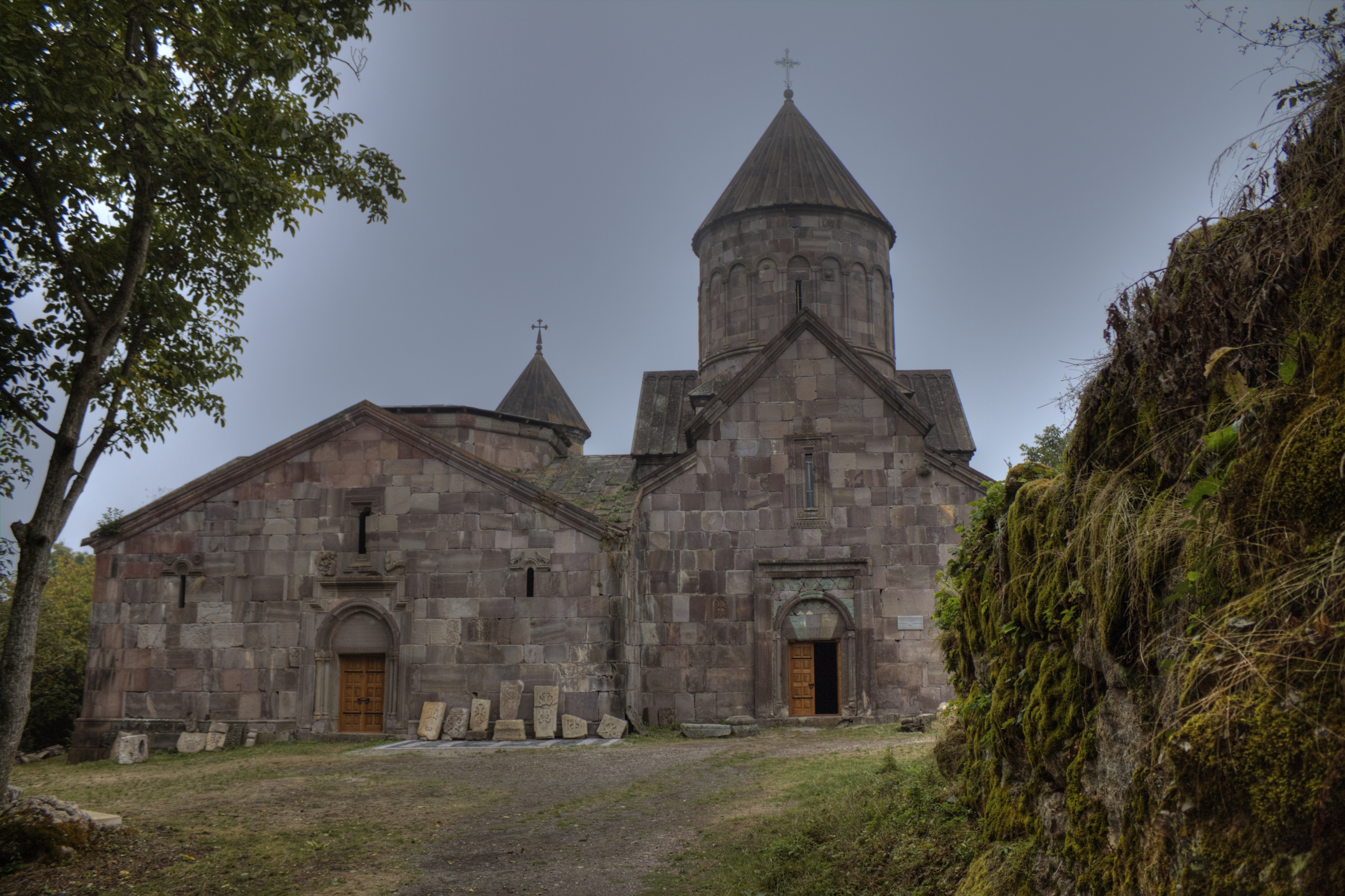 The 10th-13th century Armenian Monastery of Makaravank in northeastern Armenia. (HDR tonemapping from one RAW image using Photomatix.)